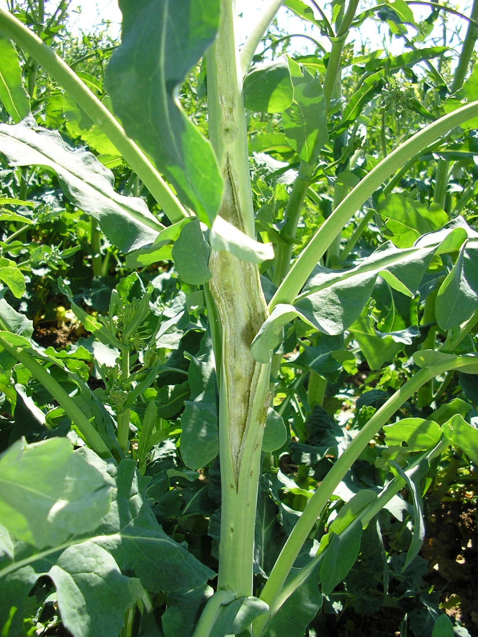 main stem of oil seed rape damaged by rape stem weevil